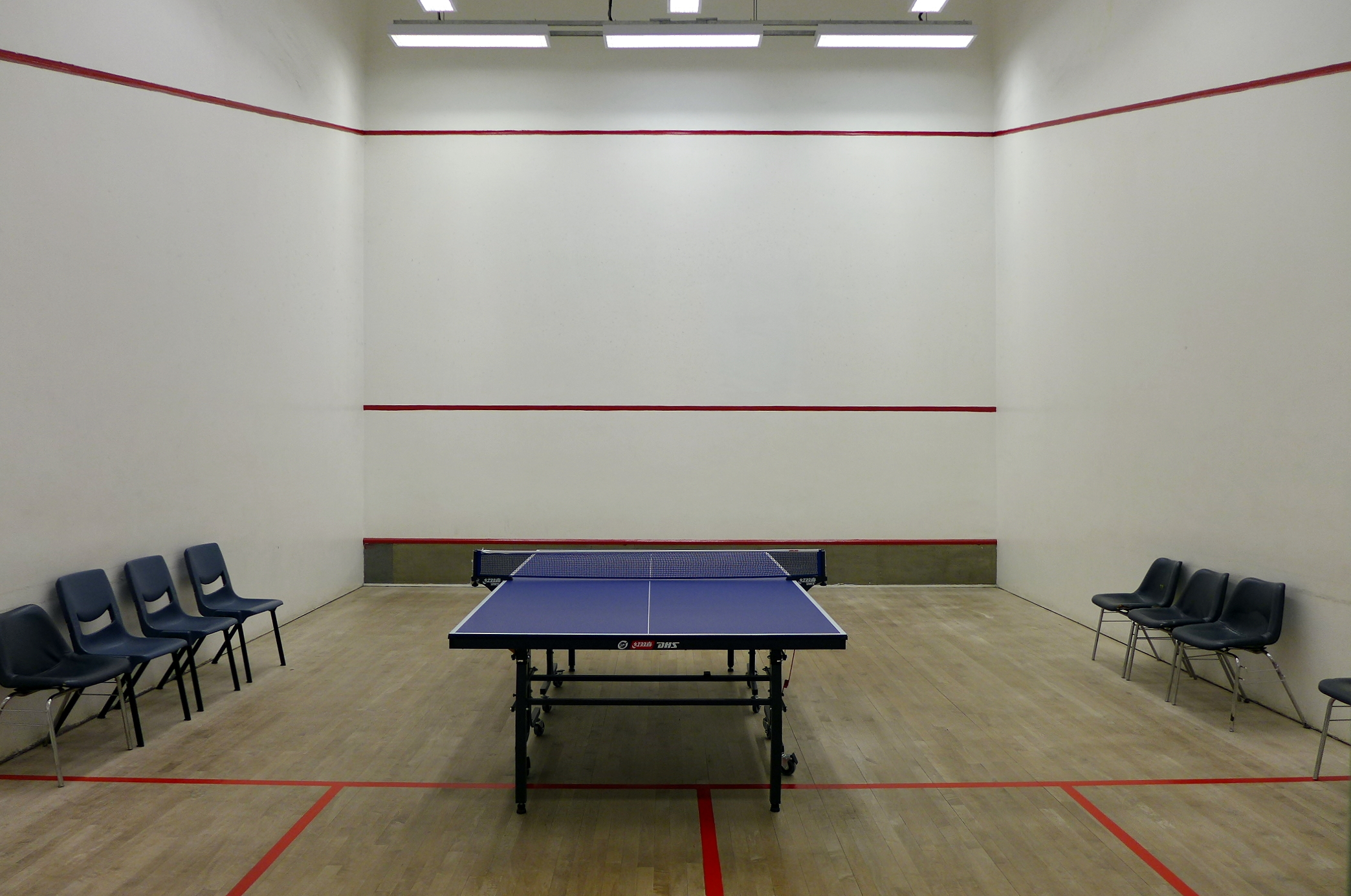 Sai Wan Ho Sports Centre Multi Purpose Arena